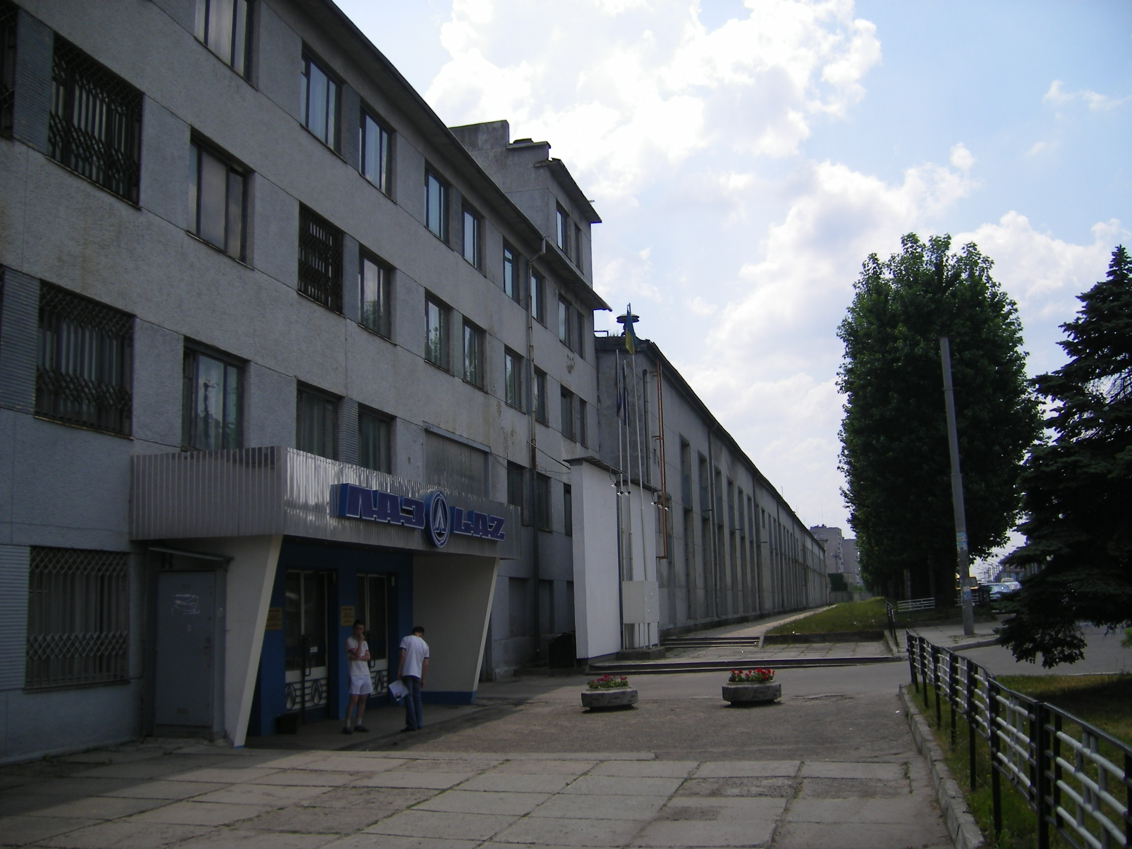 LAZ bus factory, Lviv